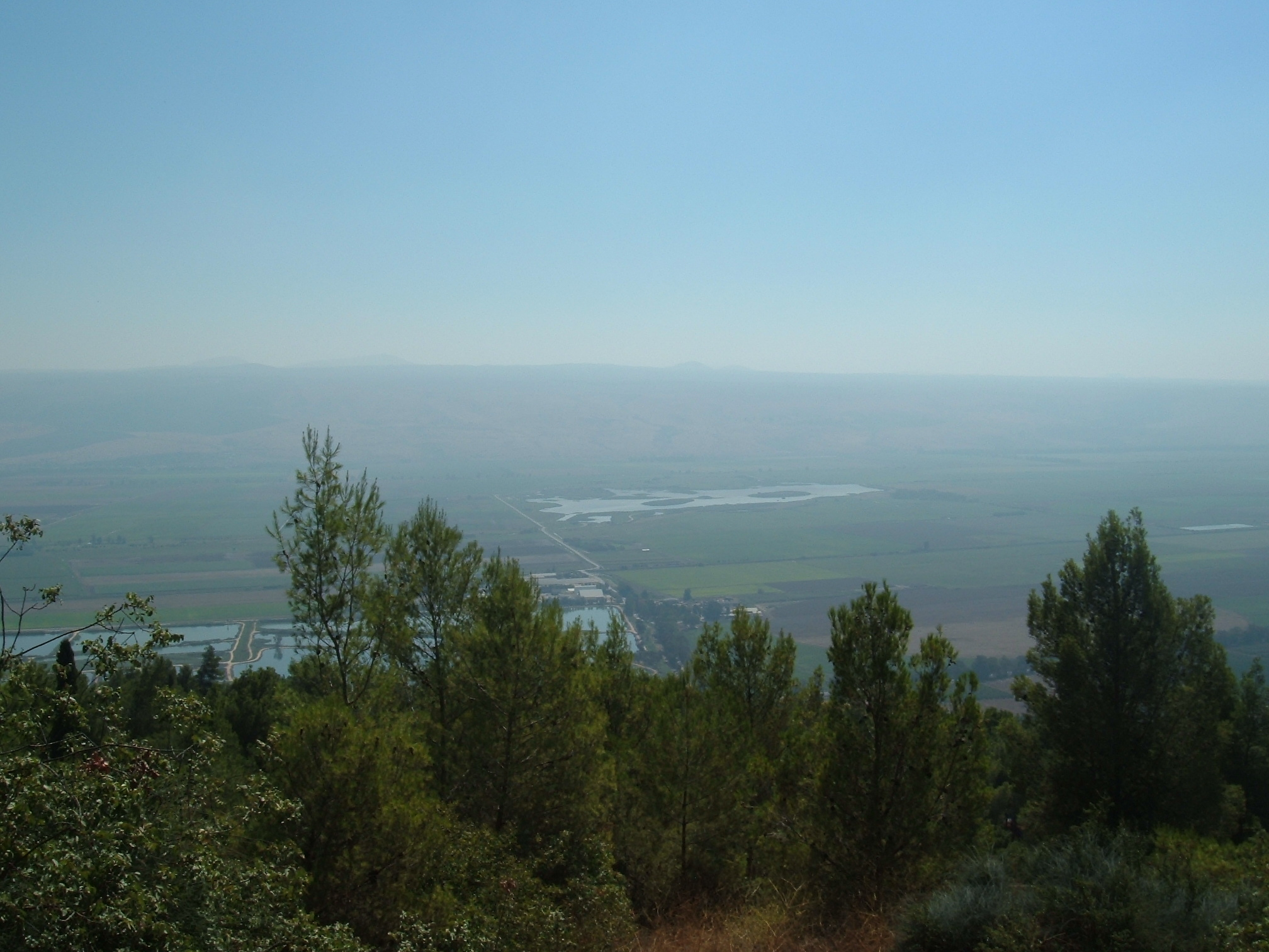 עמק החולה מבט ממצודת כ"ח - the Hula Valley from the Kaf-Het (Koach) fortress